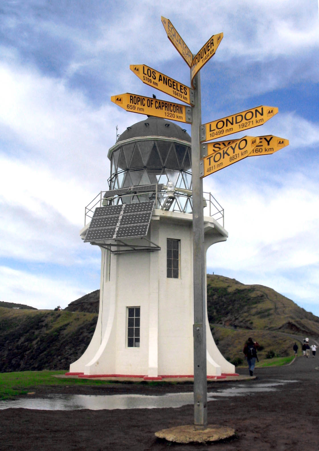 Lighthouse on Cape Reinga. In Māori tradition, Cape Reinga is the place from where the spirits of the dead depart to return to Hawaiki, the legendary ancestral homeland.